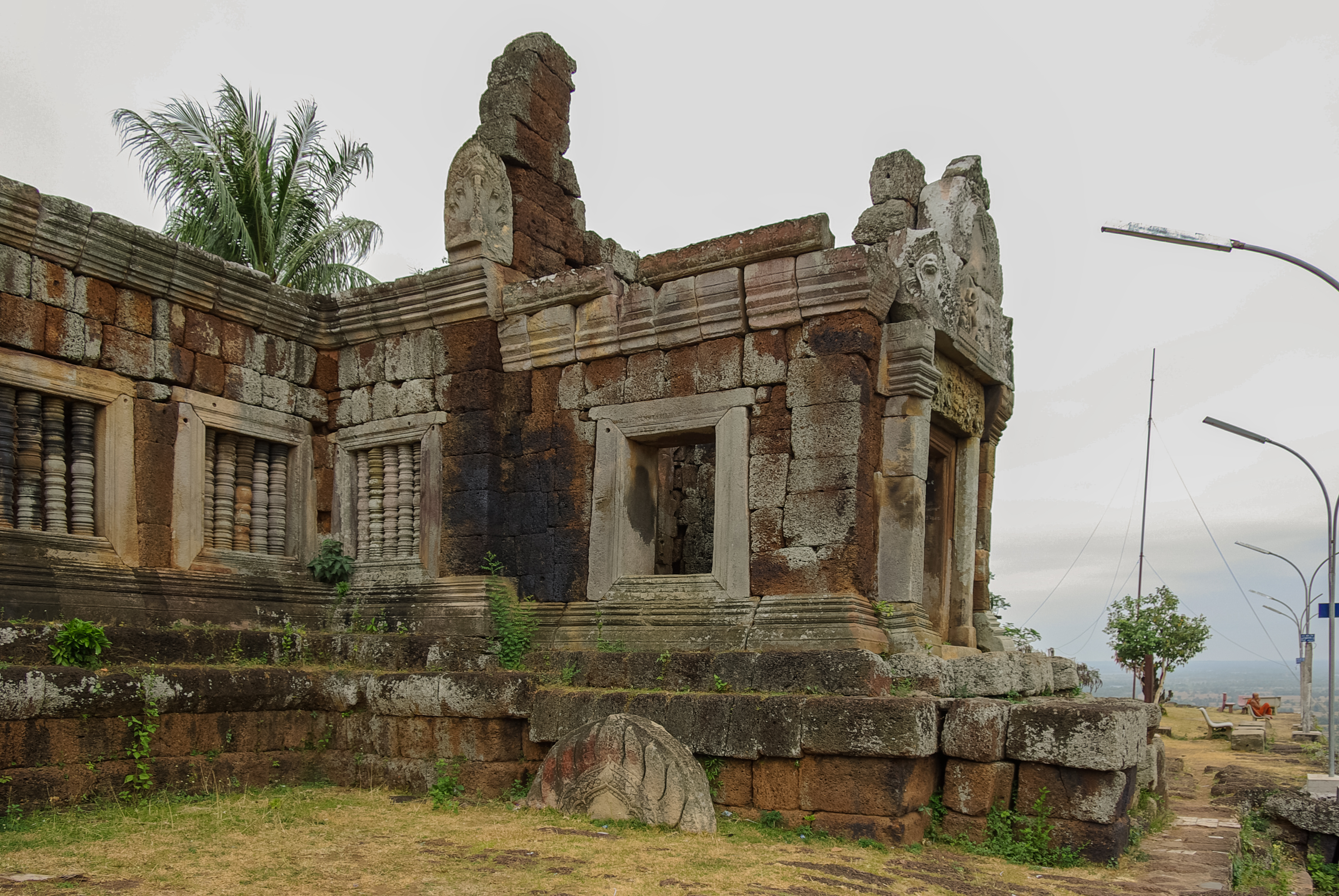 Ancient Angkor temple on the summit of Phnom Chisor